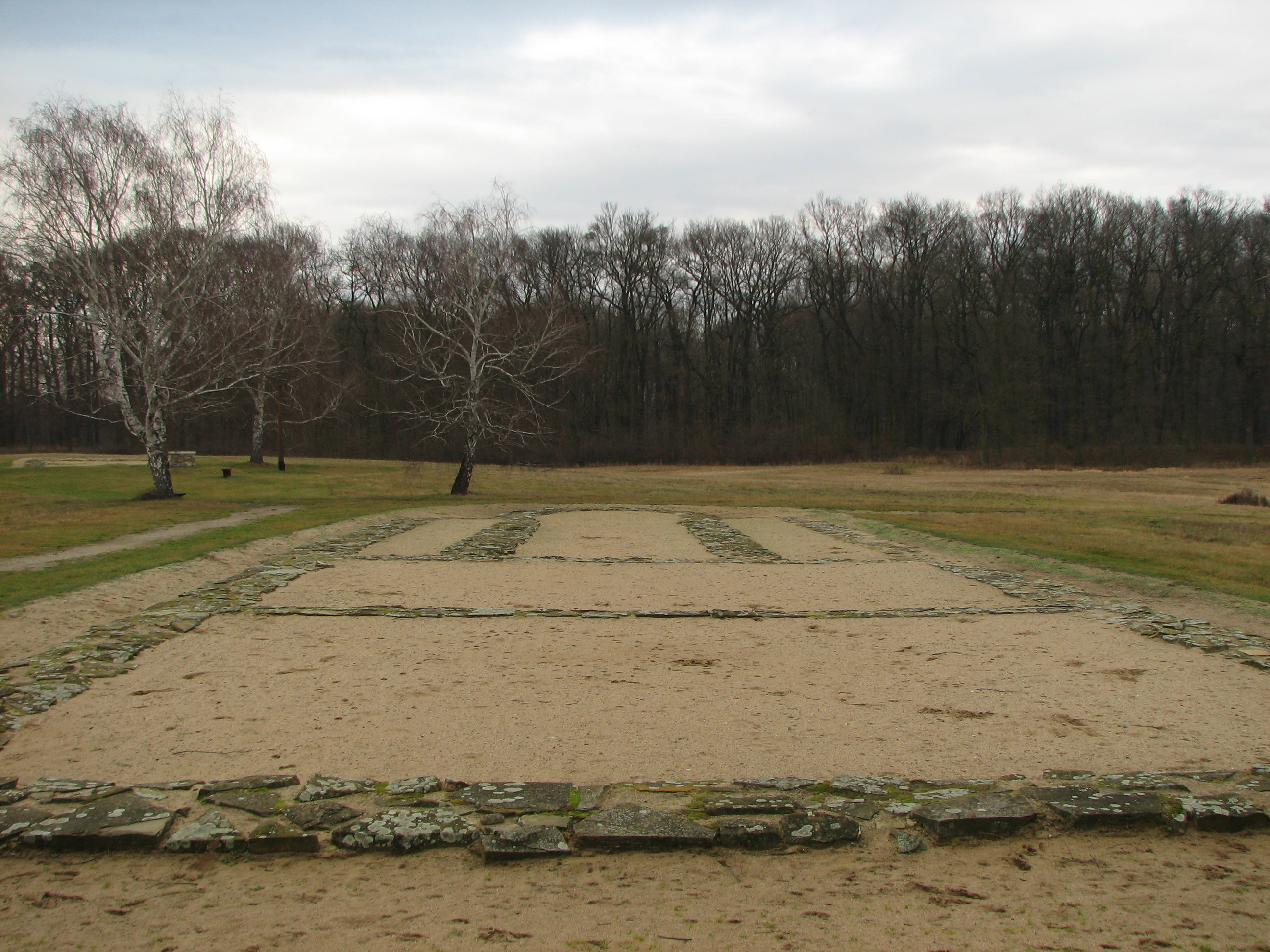 Archaeological museum Mikulčice valy - stone foundations of a church